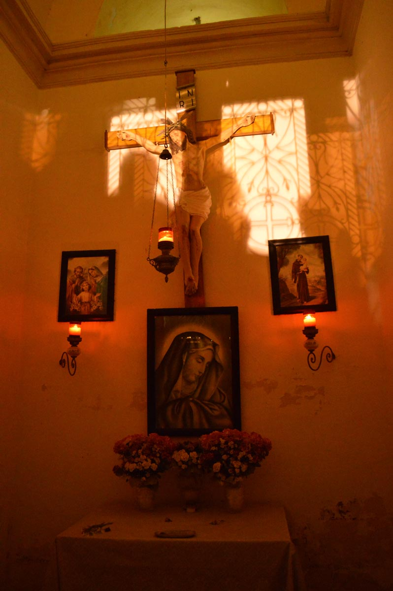 Insides of the Laferla Cross shrine.